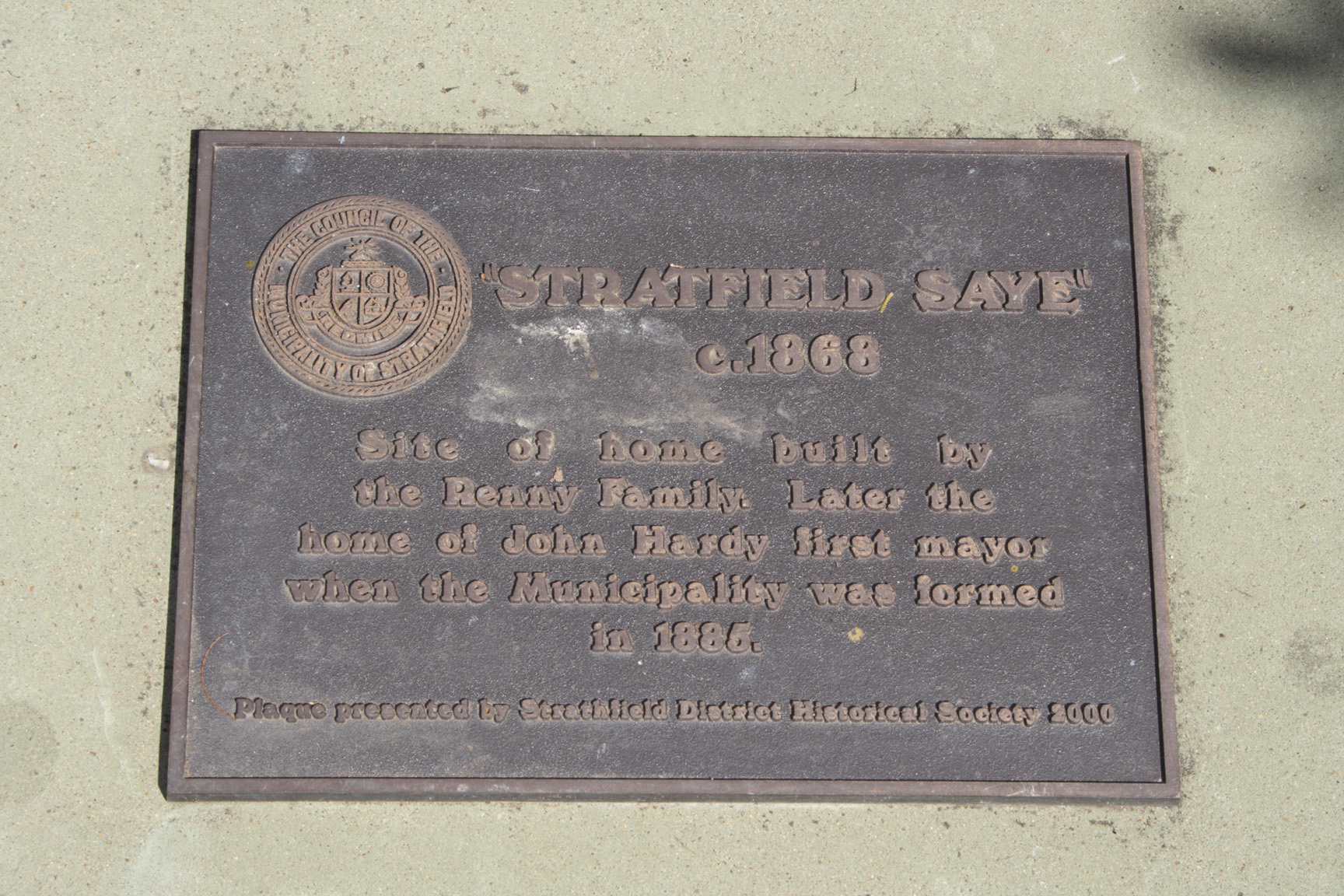 Plaque marking the approximate location of Strathfield Saye on present-day Strathfield Avenue, Strathfield, Sydney, Australia -- Jasabella 13:12, 1 October 2005 (UTC)